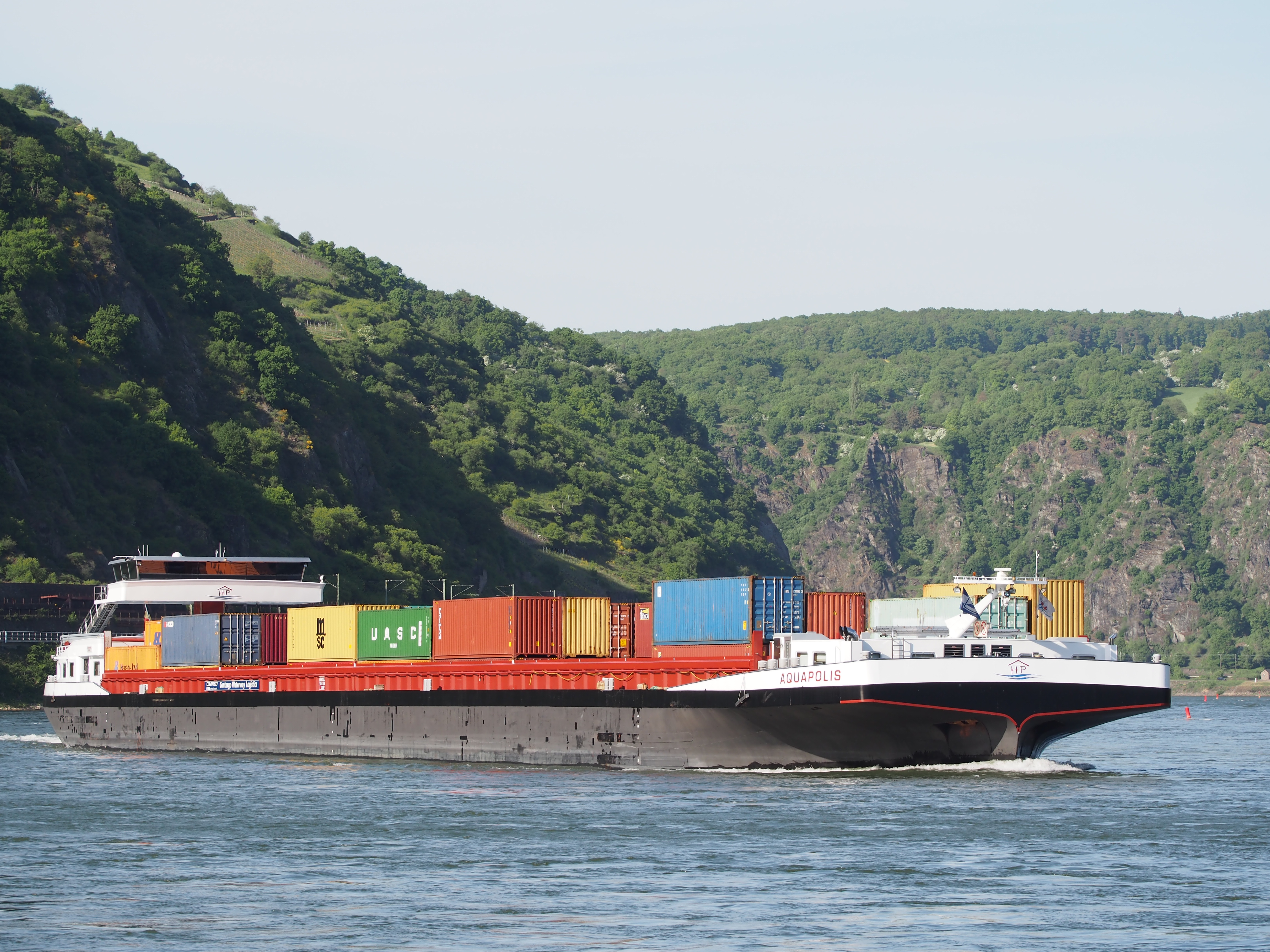 Photographed at the Rhine near the Loreley, Germany.